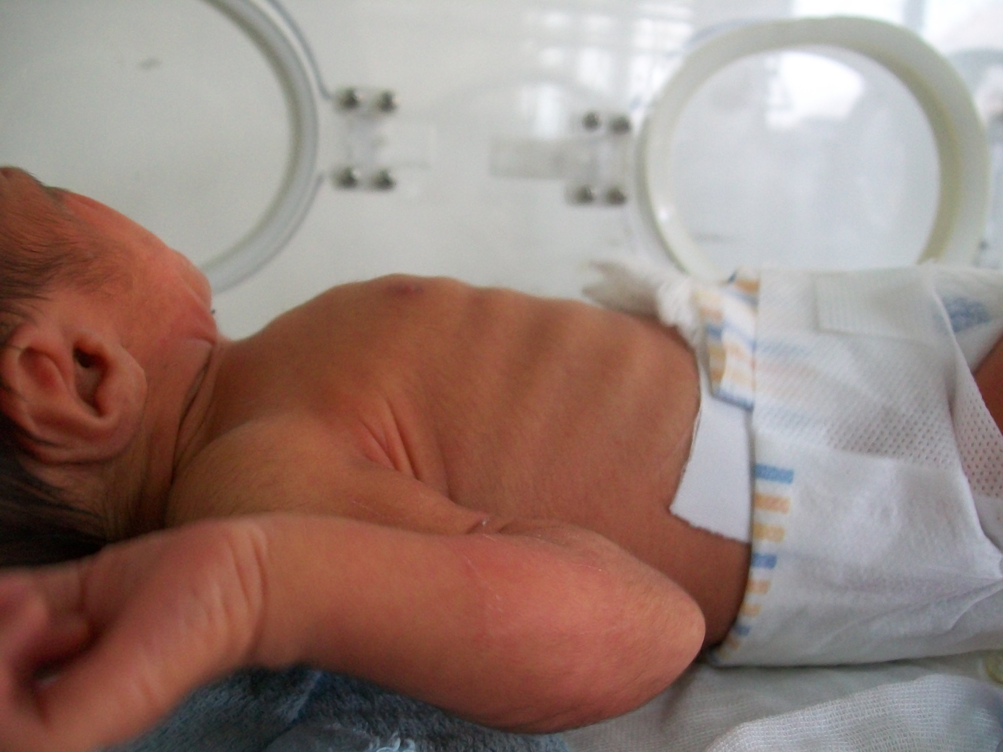 Intercostal retractions in a newborn with breathing difficulties.